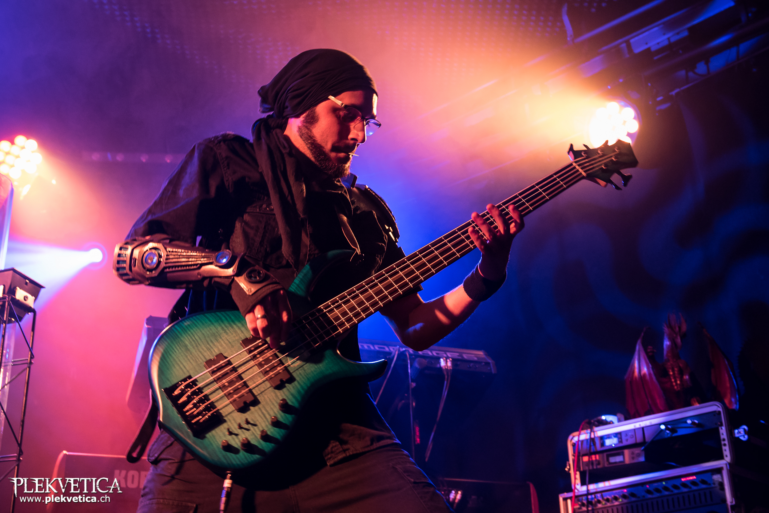 DEEP SUN, Angelo Salerno, Bass, live at Böröm, 2019